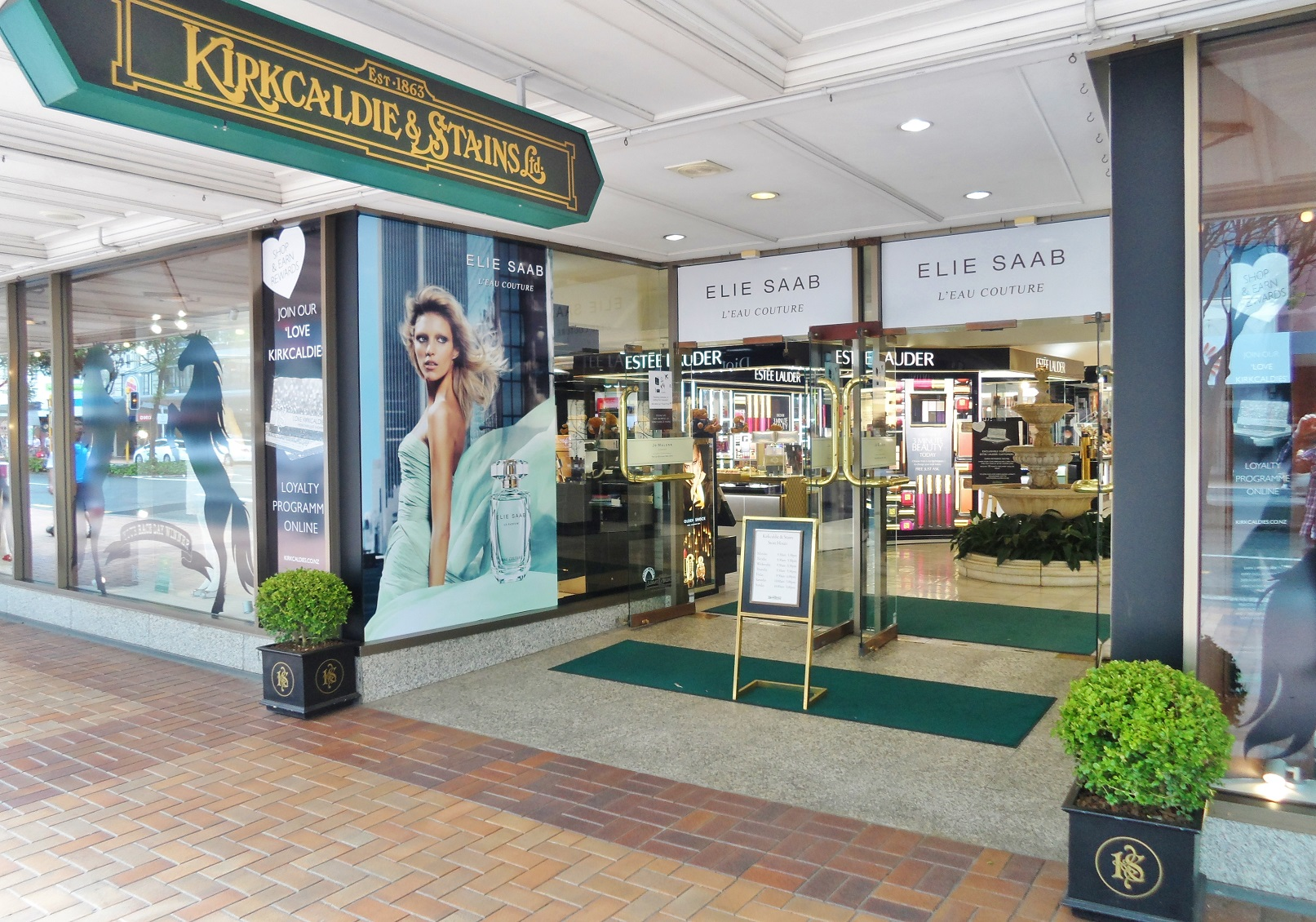 Main entrance to independent New Zealand department store Kirkcaldie & Stains (showing advertising for Elie Saab L'eau Couture fragrance and Estée Lauder cosmetics counter) on Lambton Quay in Wellington in 2015.